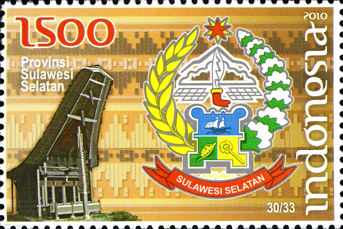 Stamps of Indonesia